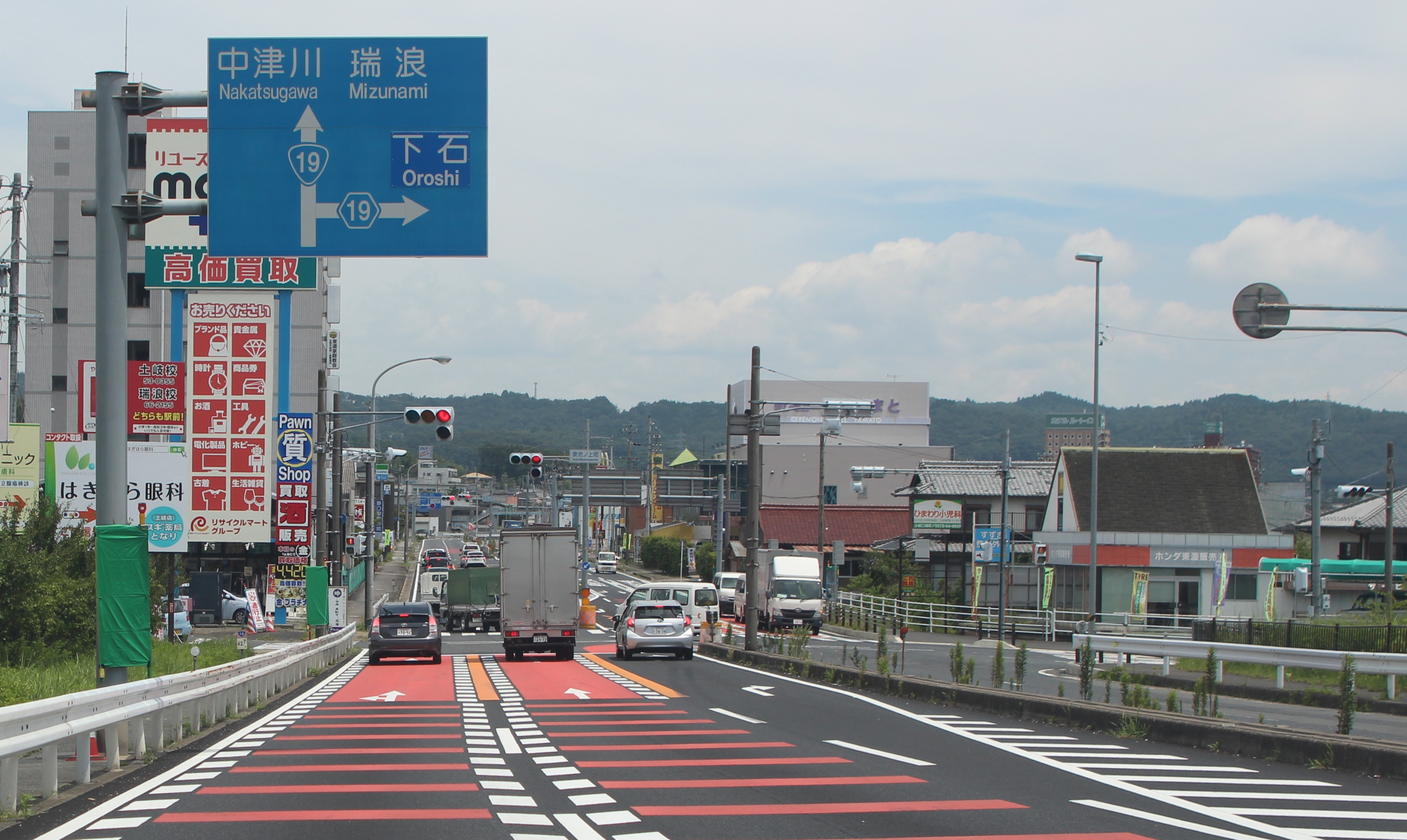 Route 19 and Gifu Prefectural Road Route 19 in Izumiikenouecho, Toki, Gifu prefecture, Japan.